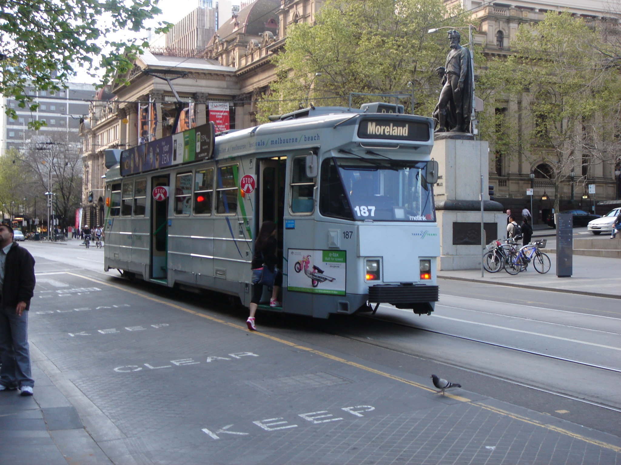 Tram in Melbourne, Australia Sony Cyber-shot DSC-T7